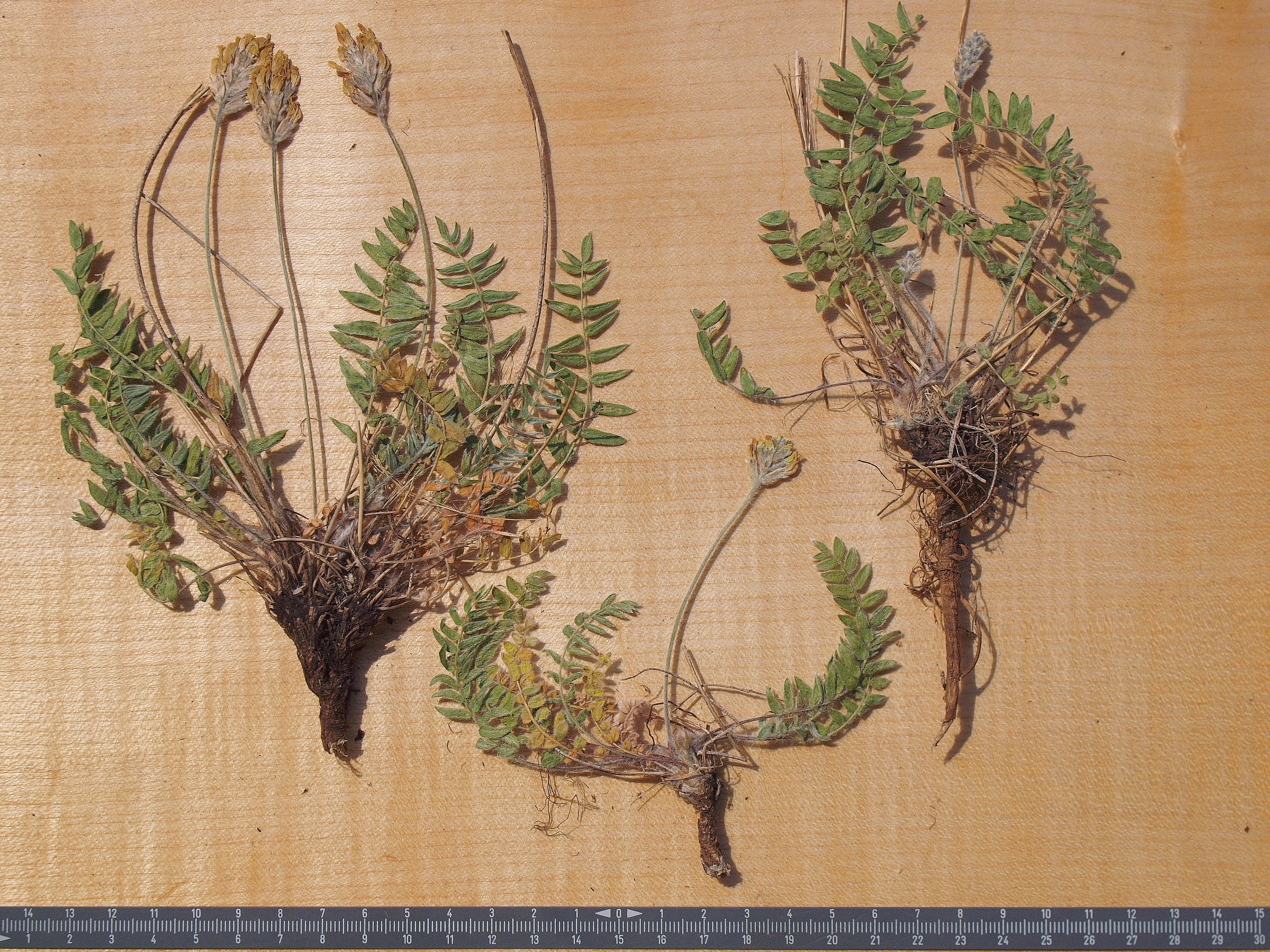 Oxytropis dinarica ssp. dinarica var. macrocarpa leg Cikovac 2015 Bijela gora Borovi do